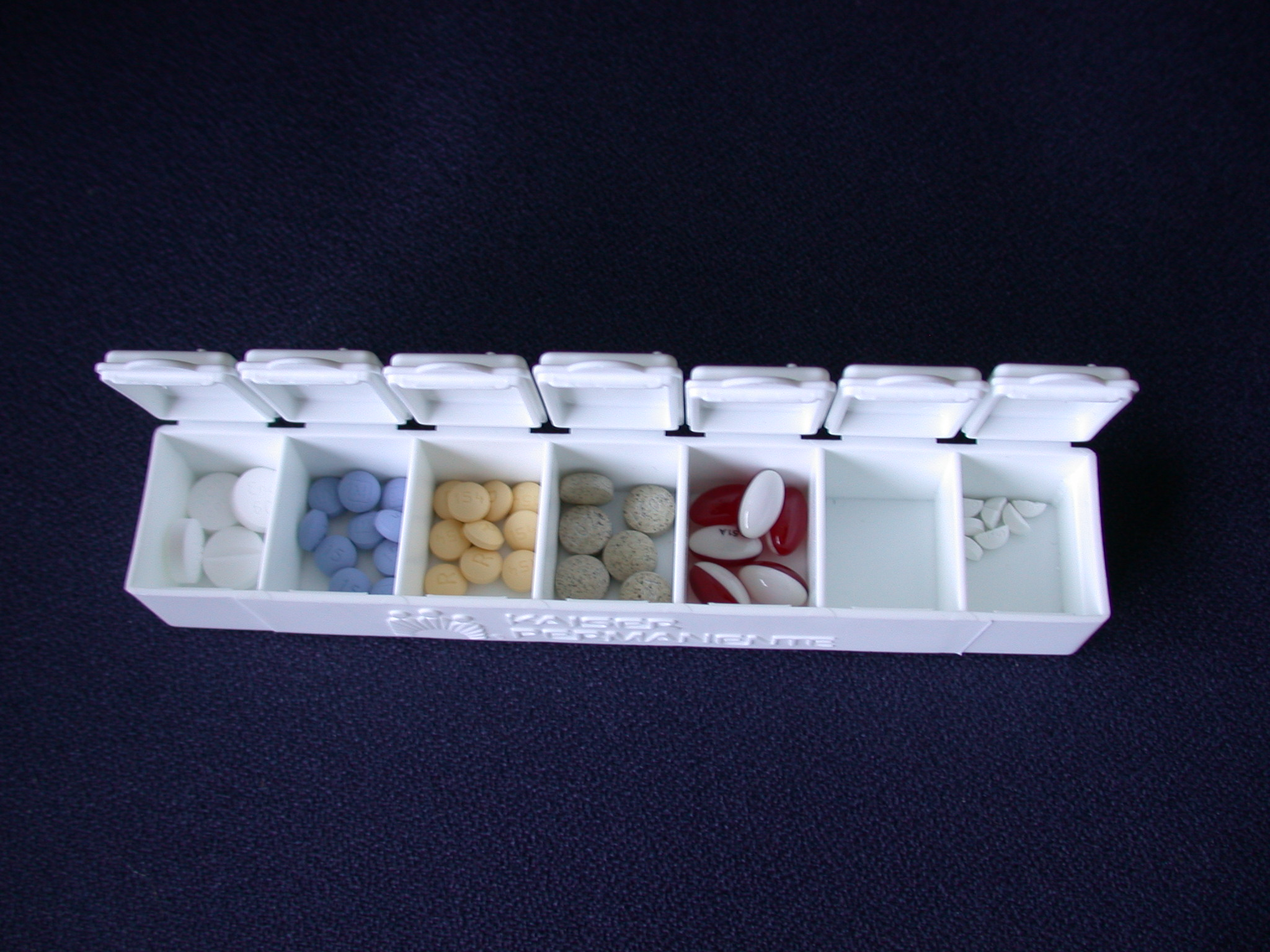 A pill box with various medications in it.